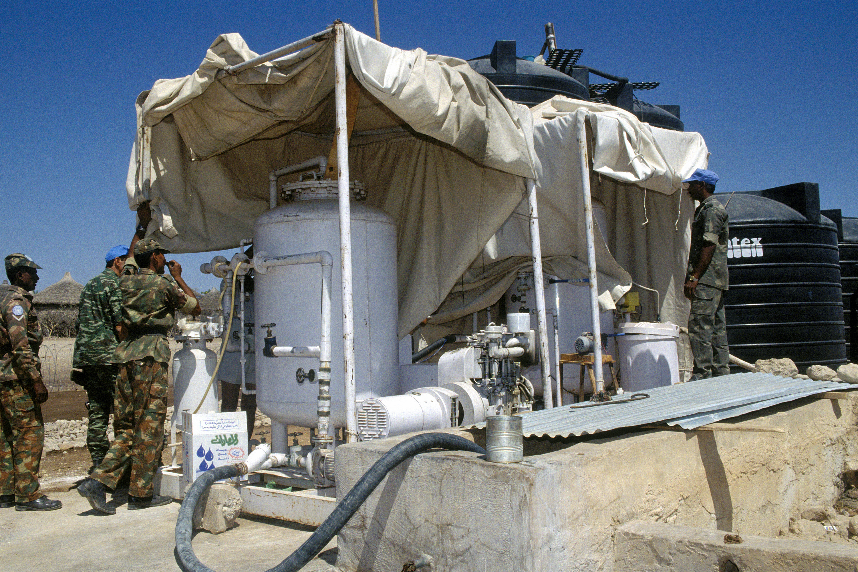 Hellenic and Indian Soldiers tour the water purification plant. The Indian Army operates the plant and the Hellenic Army operates a local field hospital.